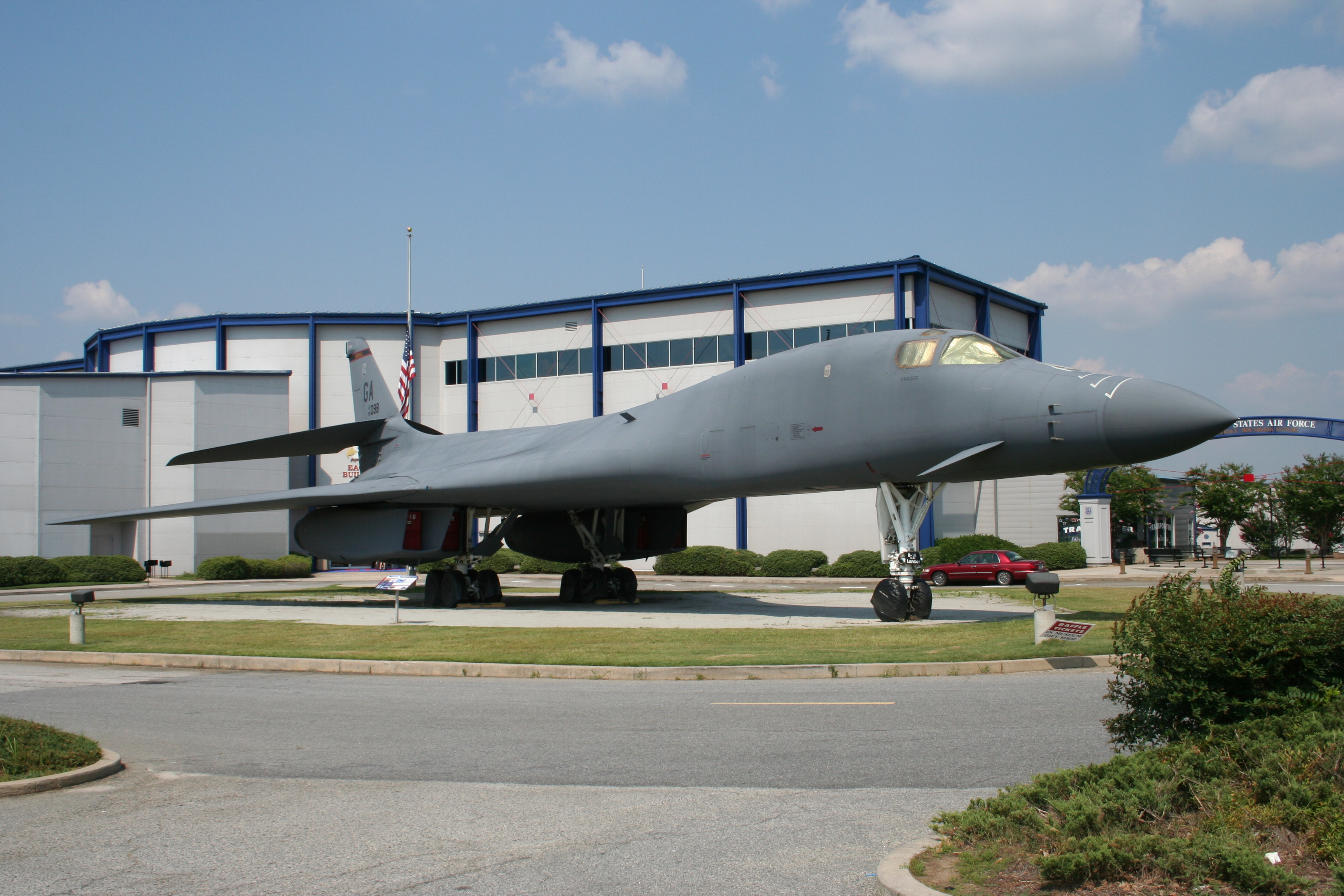 B-1B Lancer bomber outside Robins AFB Museum of Aviation